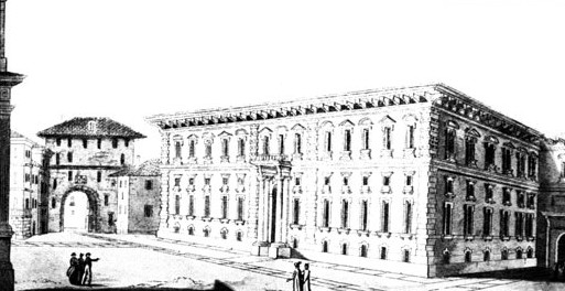 The building housing Brera Astronomical Observatory, Milan, Italy, at the beginning of 19th century. Engraving In early 1800s In 2007.